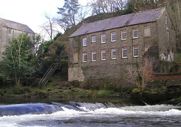 Allt-y-Cafan Mill and weir, Llandysul, Wales. One of the water-powered woolen mills in south west Wales that flourished a century ago.